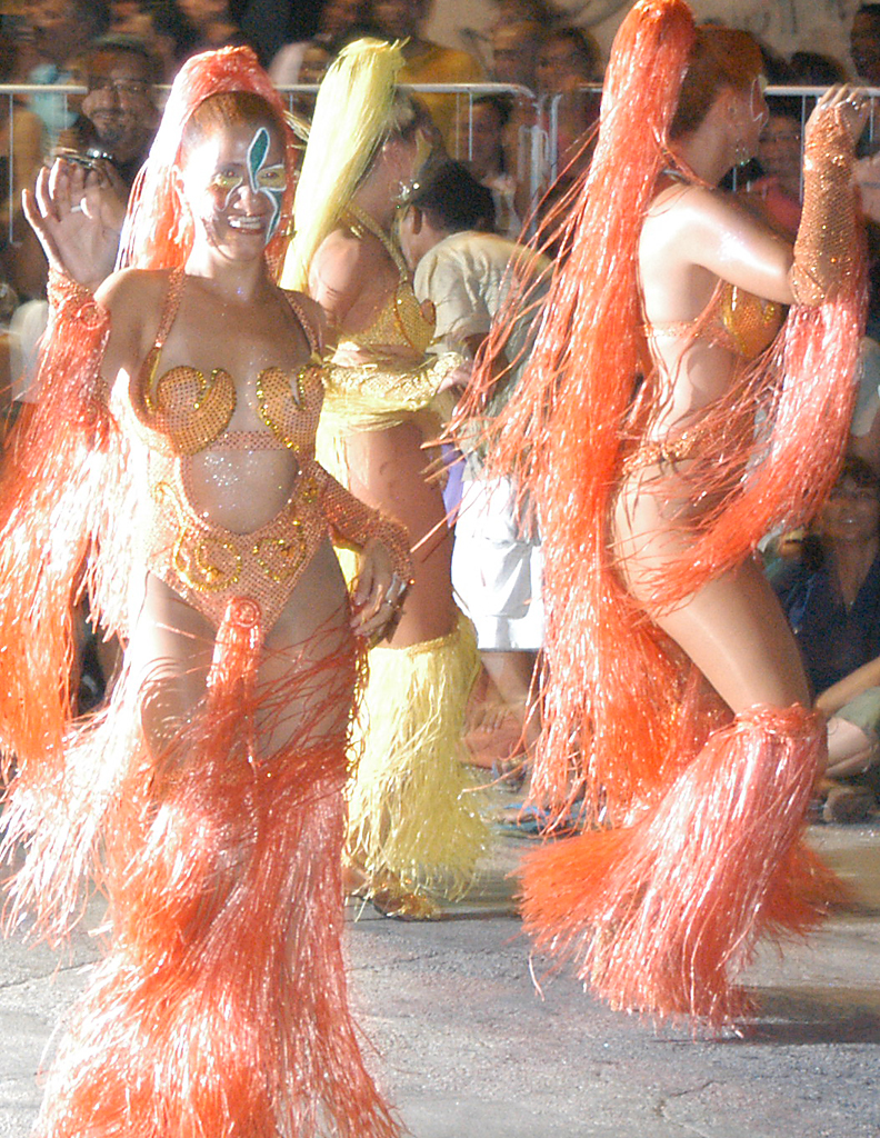 Montevideo Carnaval